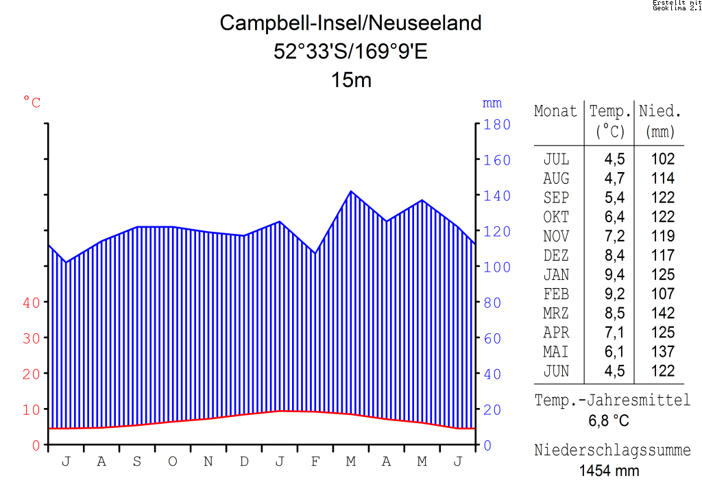 climate chart in the format by Walther and Lieth, metric, °Celsisus and millimeters, made with Geoklima 2.1